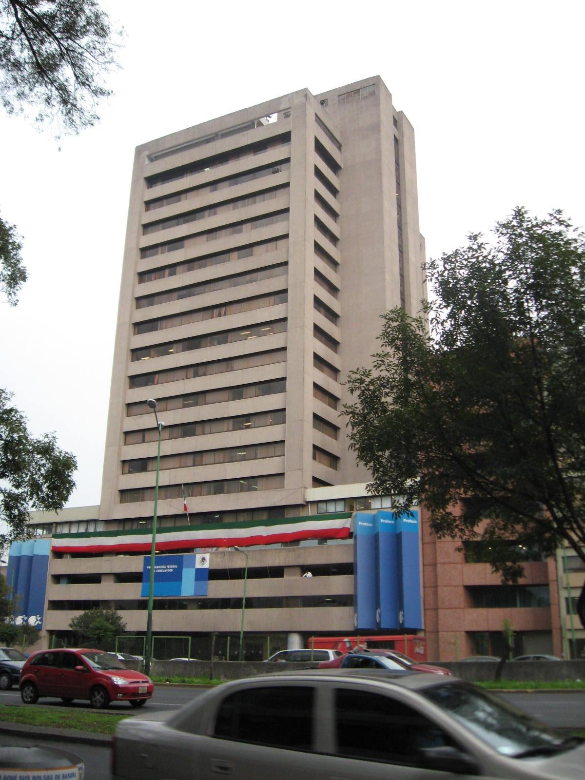 Offices of PROFECO (Mexico's consumer protection agency) located on Jose Vasconcelos Avenue in Colonia Condesa in Mexico City